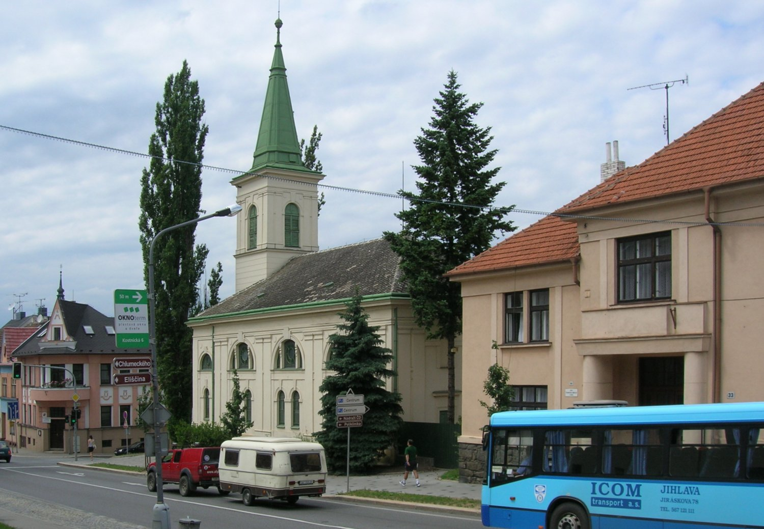 Třebíč. Horka-Domky. Bráfova Street. Evangelic church